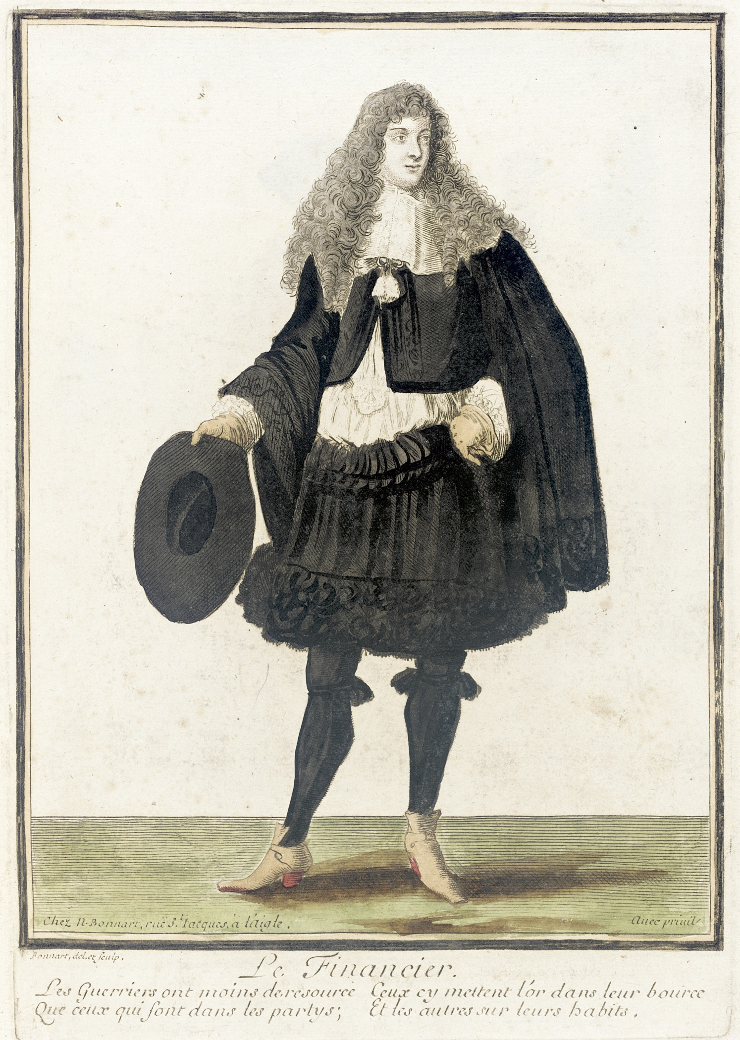 France, Paris, circa 1678-1693 Prints Hand-colored engraving on paper Sheet: 14 3/8 x 9 1/2 in. (36.51 x 24.13 cm); Composition: 10 x 7 in. (25.4 x 17.78 cm) Purchased with funds provided by The Eli and Edythe L. Broad Foundation, Mr. and Mrs. H. Tony Oppenheimer, Mr. and Mrs. Reed Oppenheimer, Hal Oppenheimer, Alice and Nahum Lainer, Mr. and Mrs. Gerald Oppenheimer, Ricki and Marvin Ring, Mr. and Mrs. David Sydorick, the Costume Council Fund, and member of the Costume Council (M.2002.57.38) Costume and Textiles